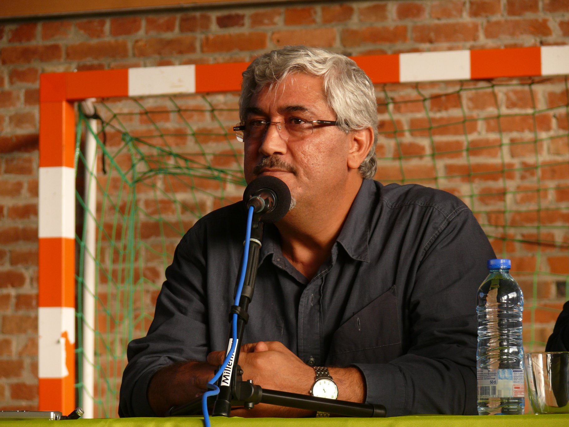 Joseph Fadelle at the 2014 forum « Jésus le Messie » in Steenwerck (Nord, France).